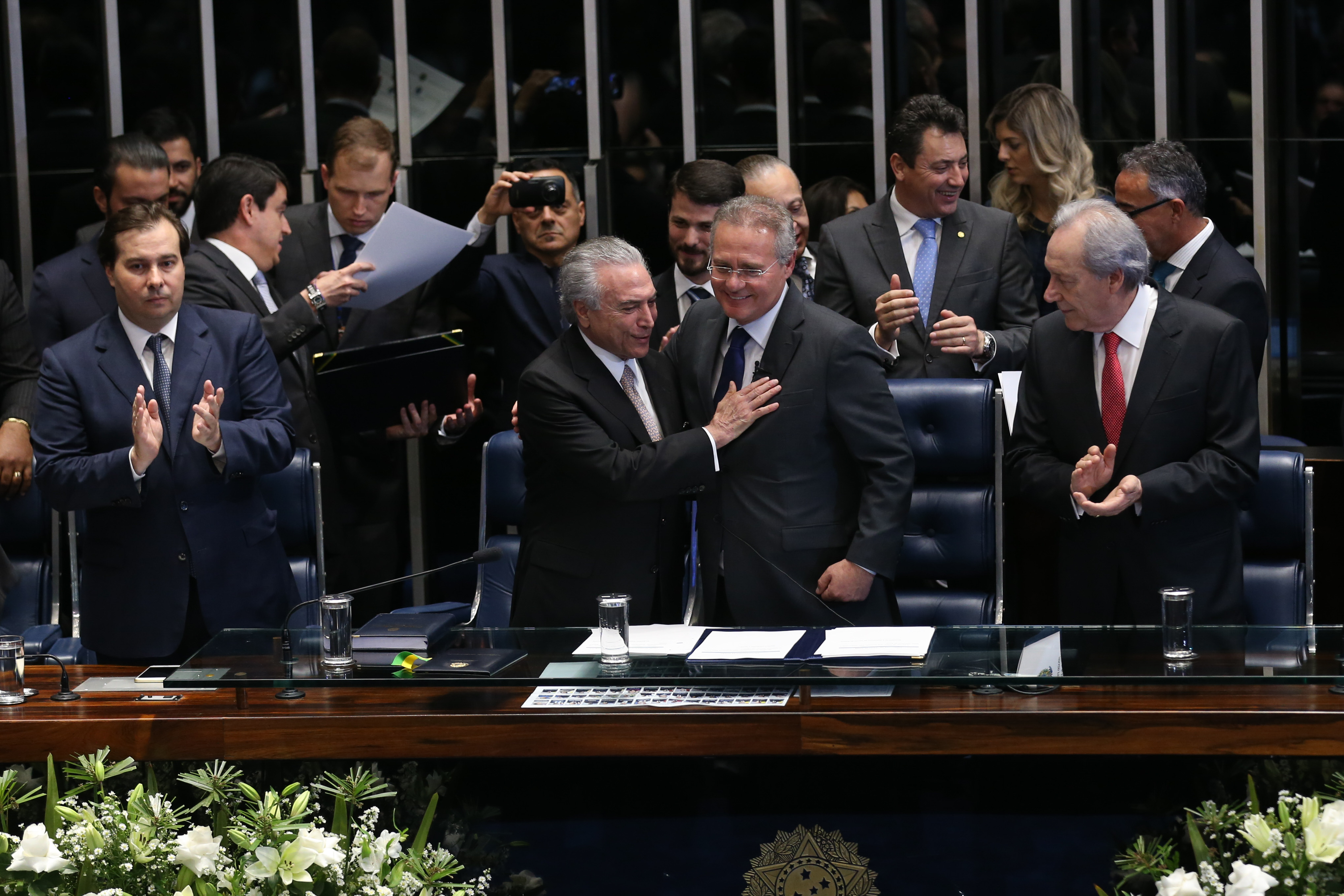 Brasília - Michel Temer recebe cumprimentos após posse como presidente da República em solenidade no Congresso Nacional (Fabio Rodrigues Pozzebom/Agência Brasil)